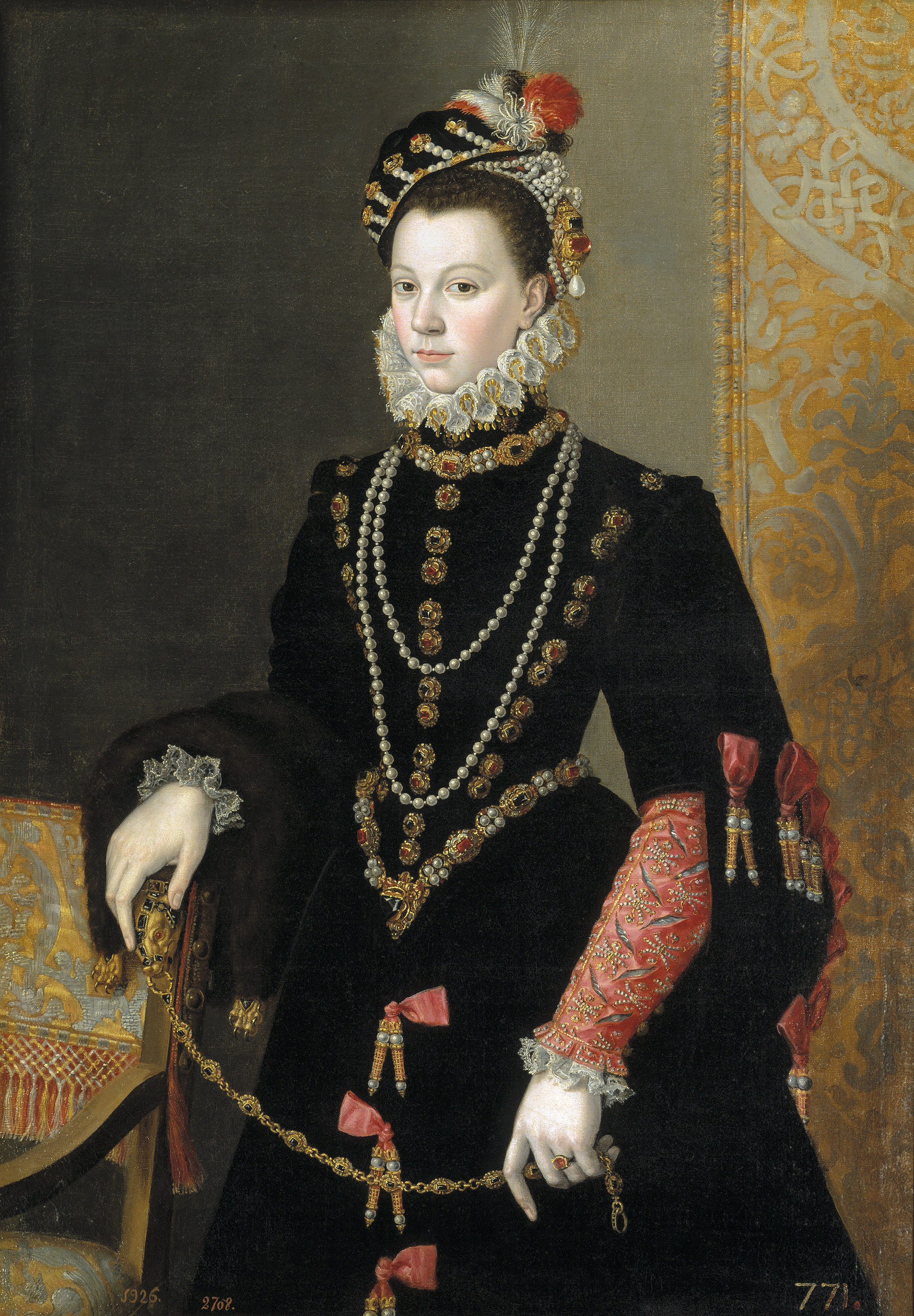 Isabel de Valois was the daughter of King Henri II of France and Catharine of Medici. Born in 1546, she married Felipe II in 1559, helping to consolidate the peace process between Spain and France. She was probably the Spanish Monarch's closest wife and she played a political role during her reign. She was the mother of the infantas Isabel Clara Eugenia and Catalina Micaela, whose weddings were planned to strengthen the Spanish presence in Flanders and Savoy. The Queen wears an austere black velvet dress in keeping with Spanish fashion at that time, but she is adorned with sumptuous jewels. Her right arm rests on a court armchair and in her hands she holds an elegant gold chain ending in a gold pendent in the form of an animal head, set with precious stones. The movement of this jewel, along with the use of red in the ribbons and sleeves, gives this portrait a certain variation and dynamism which Pantoja uses to distance his style from the stasis and rigidity that predominated in earlier Spanish portraiture. Still, he follows the guidelines set out during Felipe II's time, using the model's cold and impassive expression to emphasize the solemnity of the royal image. Some specialists consider this work to be a copy of an original by the painter Sofonisba Anguissola, a protégée of the Queen. It was painted for the Royal Collection and entered the Prado Museum from there.